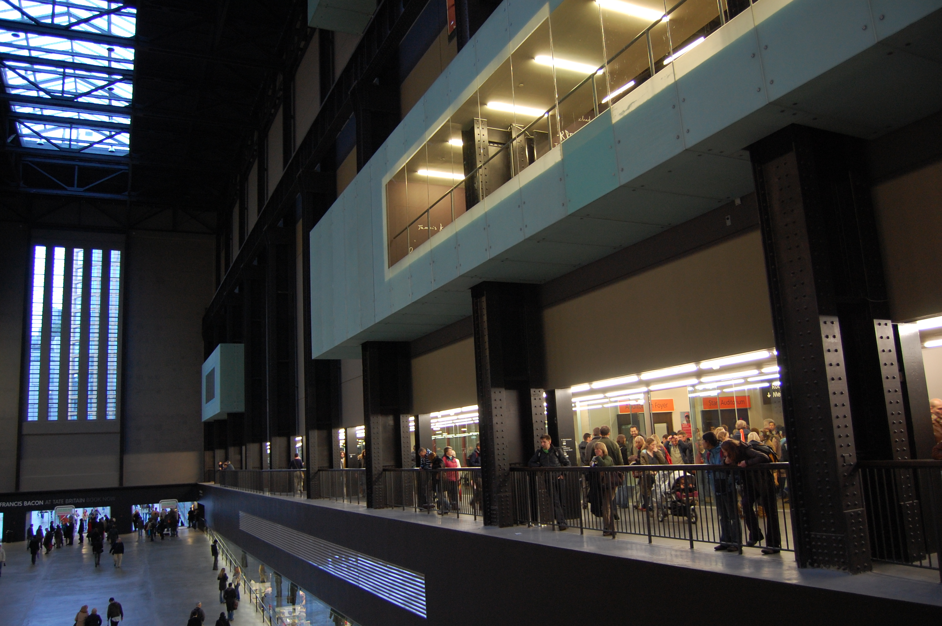 Tate Modern interior